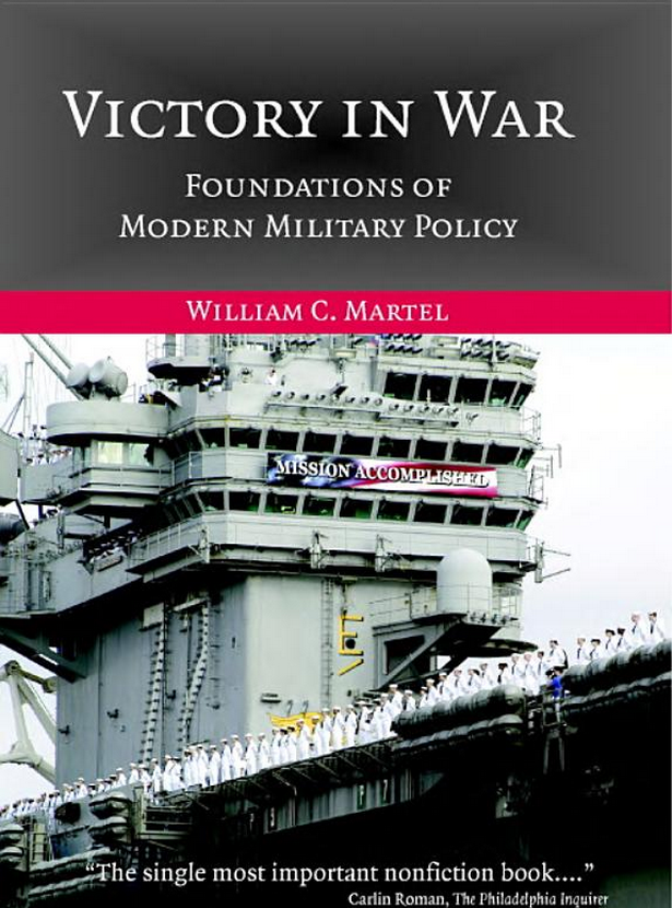 Cover of the book Victory in War, by William C. Martel, 2011 edition.